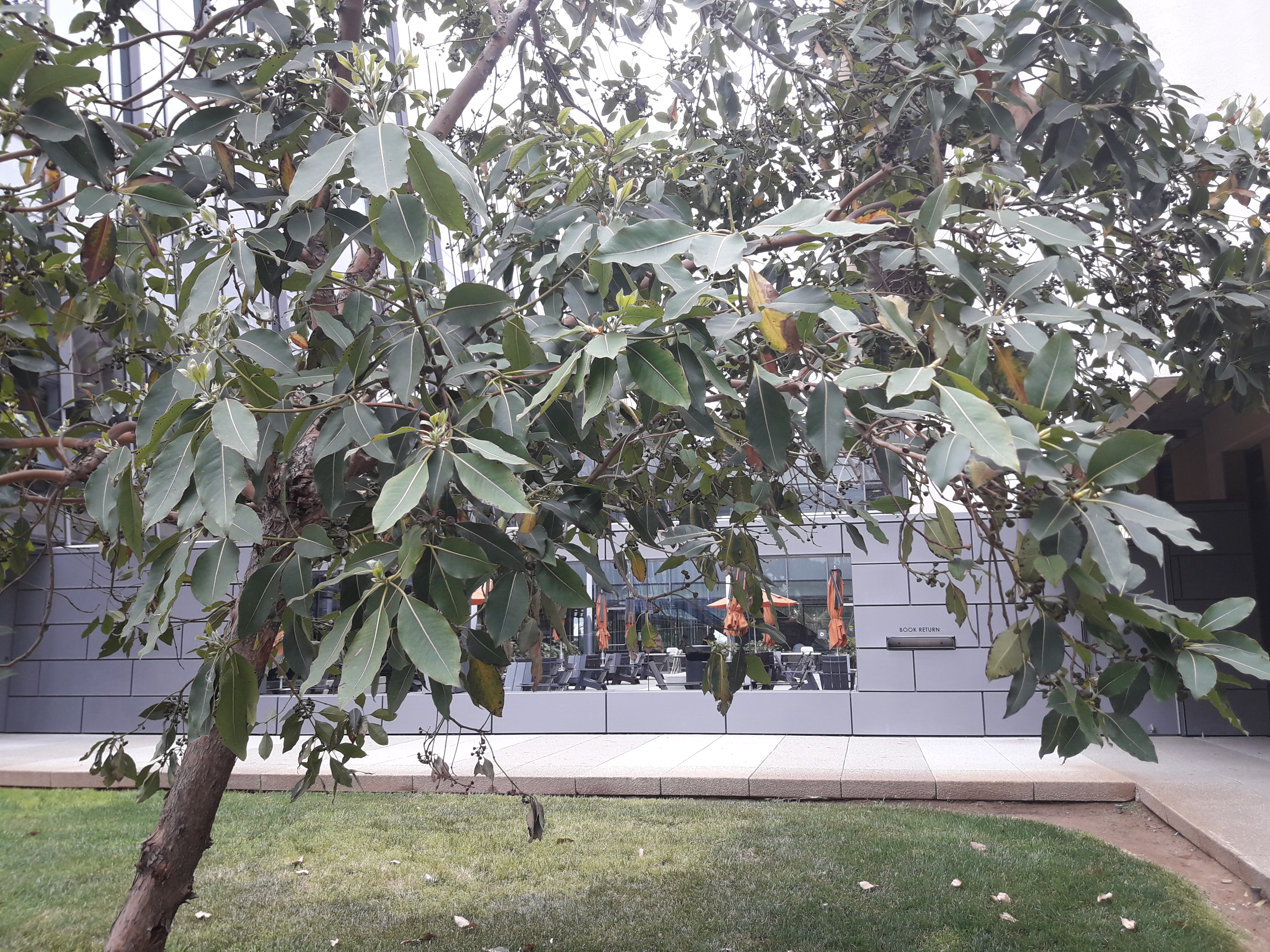 Picture of the library from a different angle.